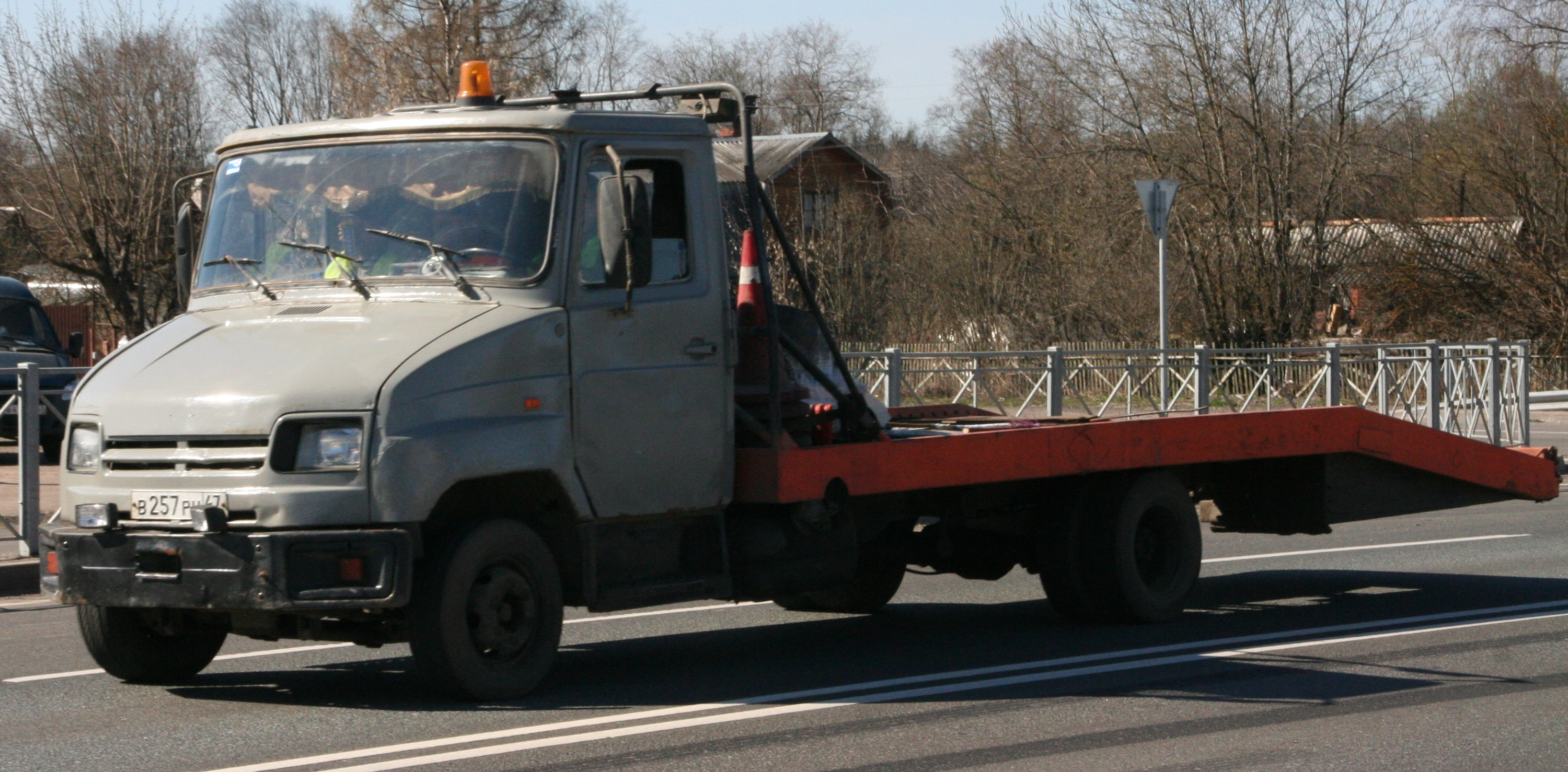 A ZIL-5301 towing truck at the A114-road to Tichwin, 130km northeast of St. Petersburg, Russia